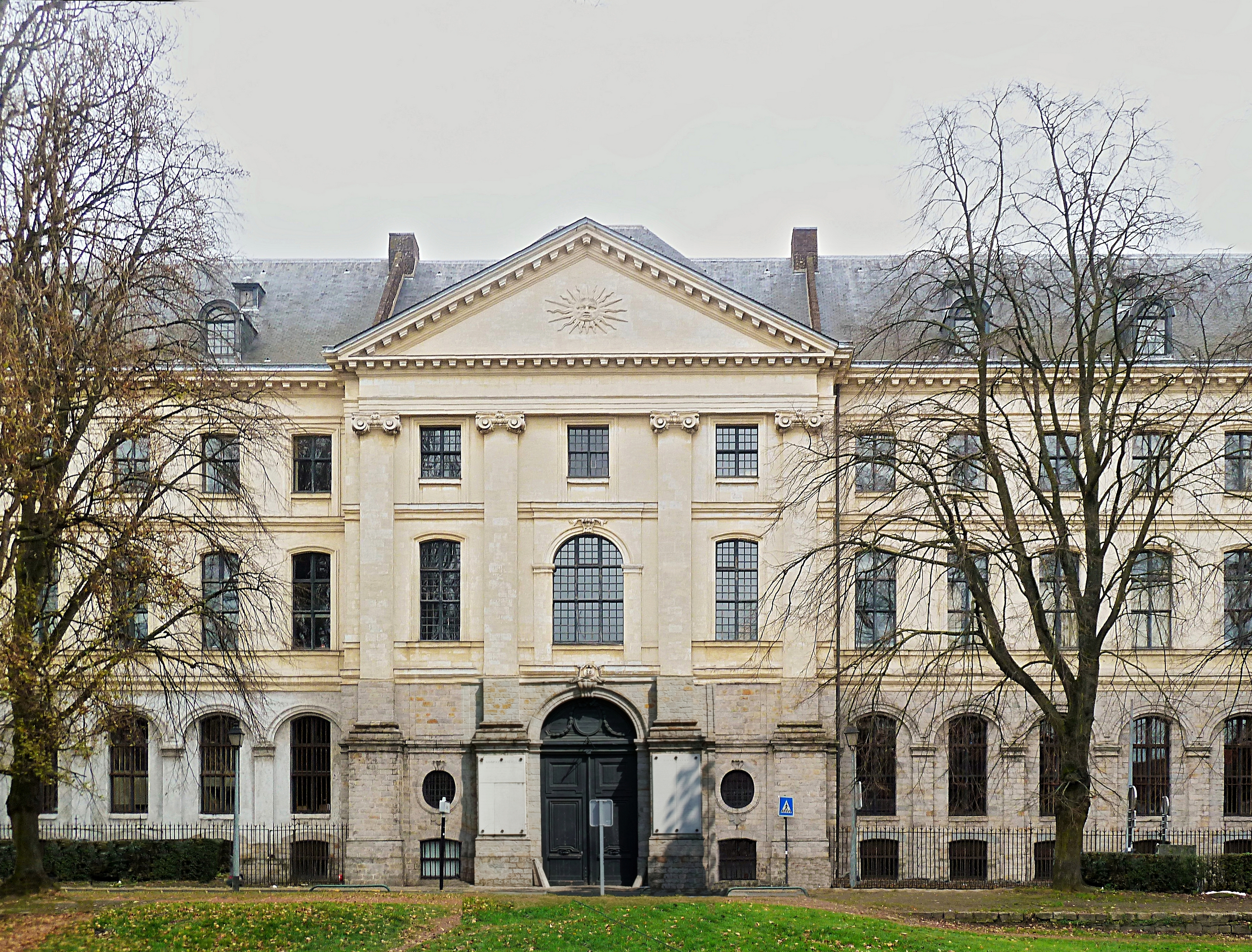 Facade of the Hospice général de Lille, now the IAE of the University of Lille. (Lille, France.) .